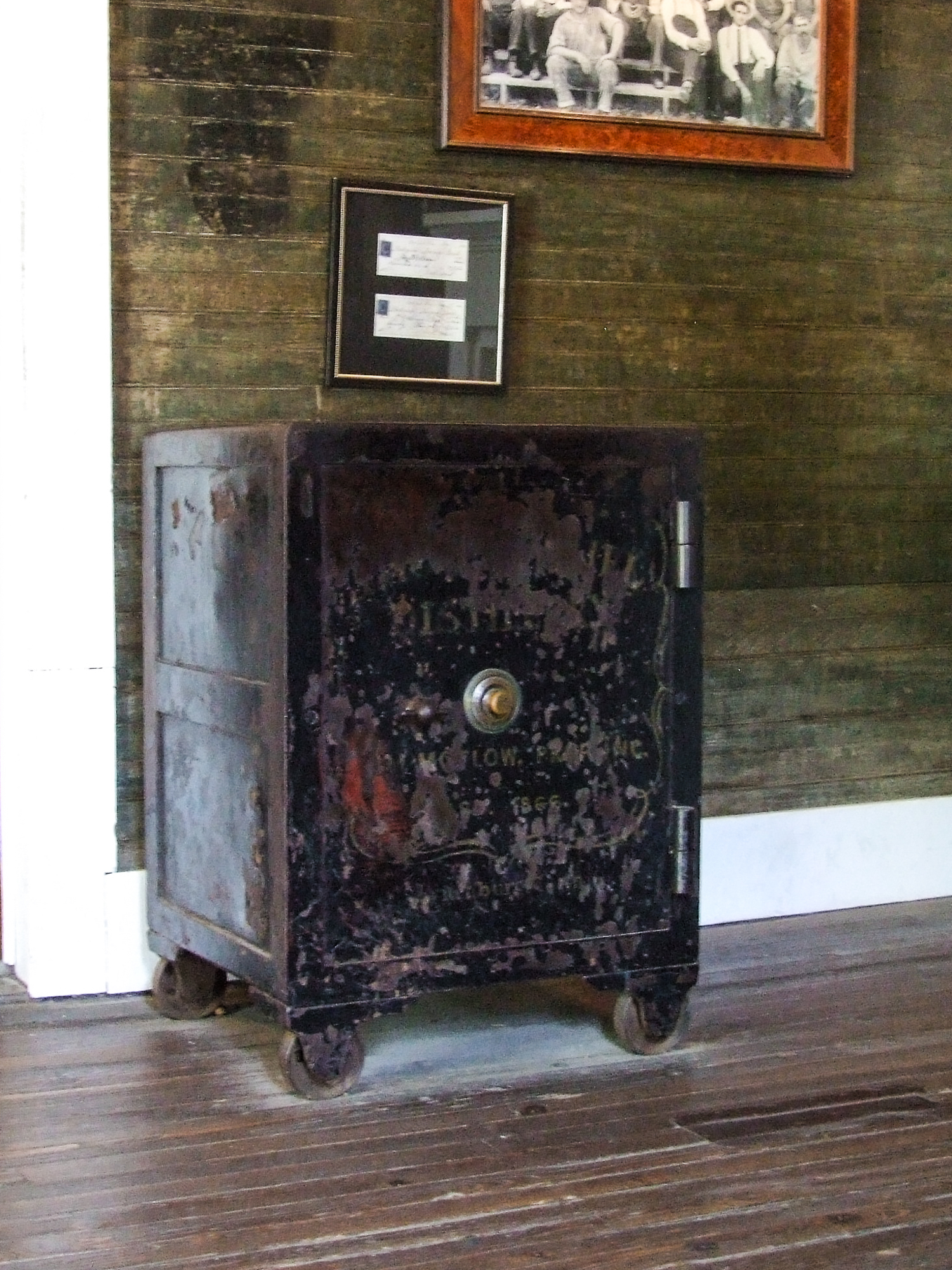 Jack Daniels company founder Jack Daniel is said to have kicked this safe in frustration when he was unable to work the combination, resulting in a toe infection that resulted in his death on October 10, 1911.